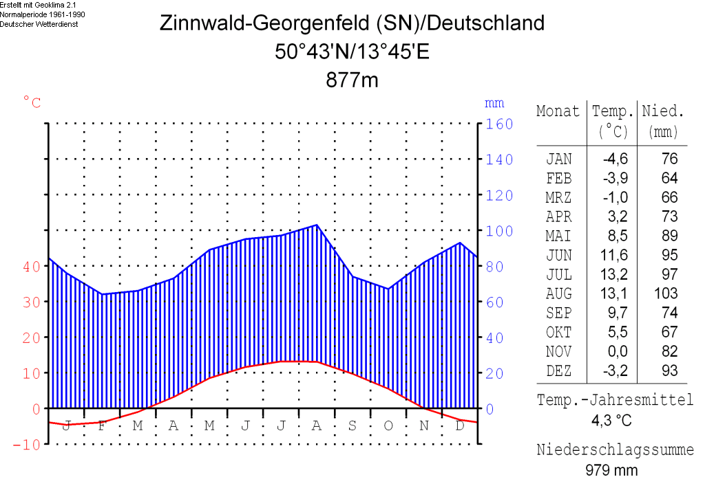 climate chart in the format by Walter and Lieth, metric, °Celsisus and millimeters, made with Geoklima 2.1